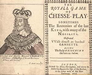 Book by Gioachino Greco (c. 1600 – c. 1634)